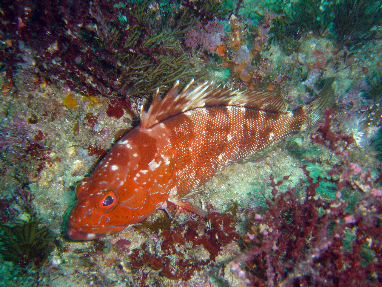 Chinaman Rockcod (Epinephelus rivulatus) near Durban, South Africa